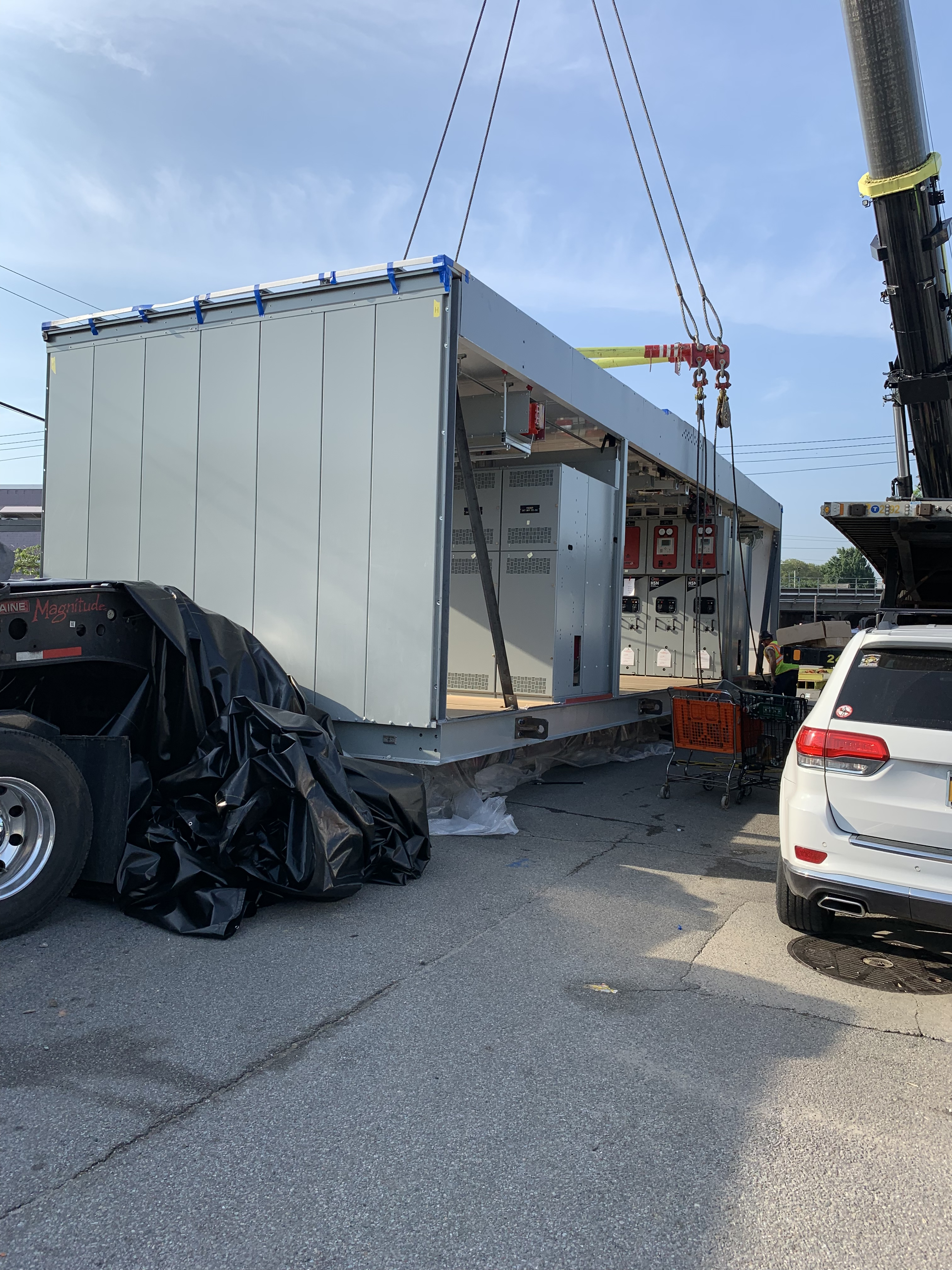 A crane placing pre-fab modules for a traction power substation in Queens. 07-20-2019